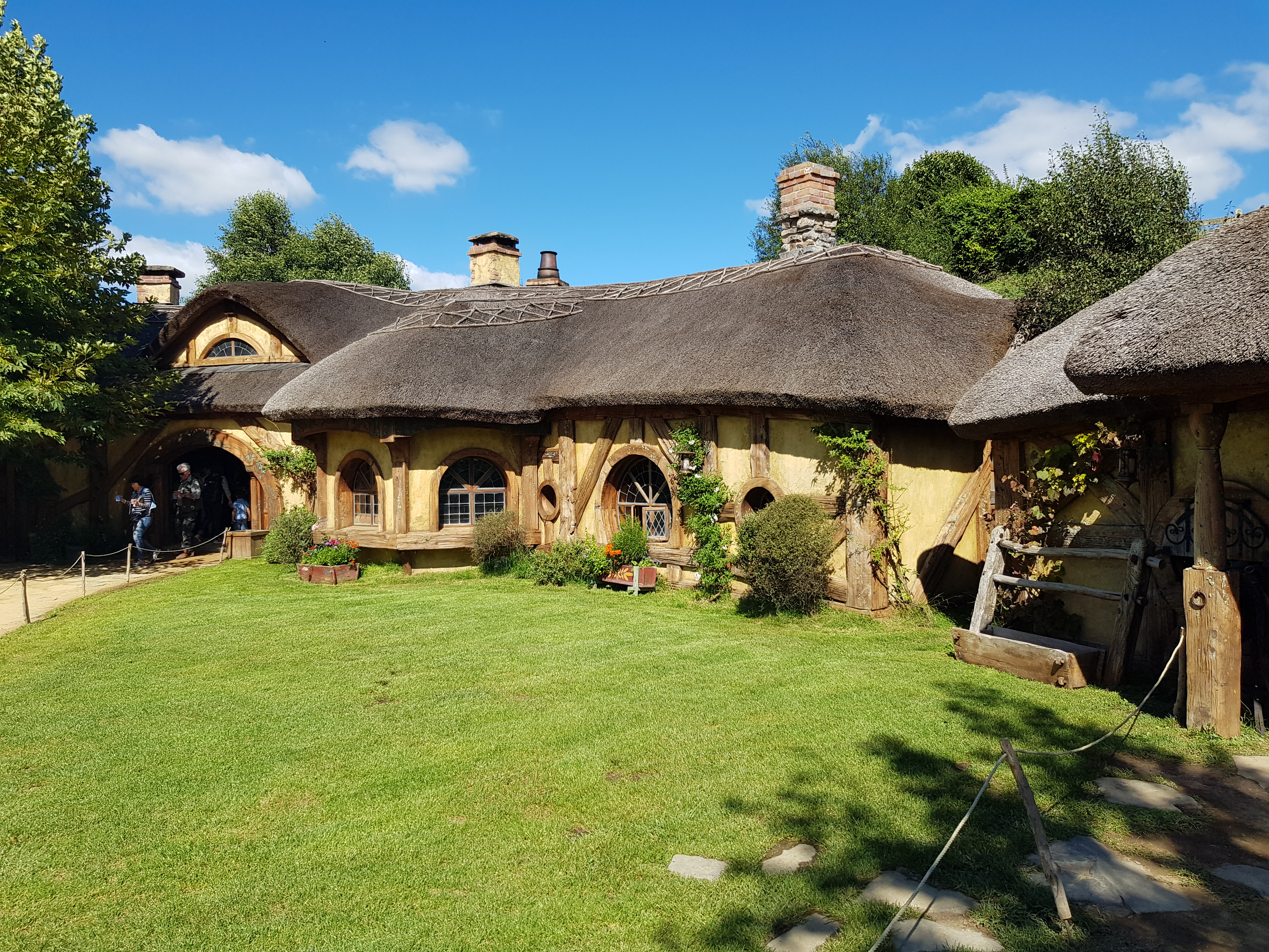 The Green Dragon Inn at Hobbiton Movie Set in Matamata, New Zealand.